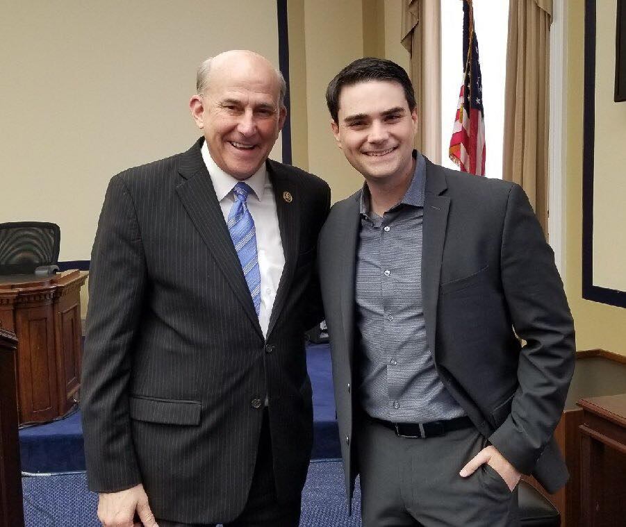 Introduced Ben Shapiro at an impromptu pizza lunch on the Hill when his event at Georgetown was cancelled by "snowflakes." Hundreds of staffers showed up to take pictures with him & ask policy questions!